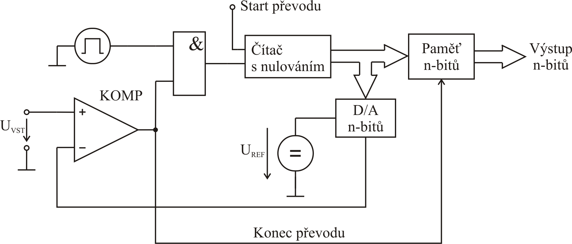 ADC